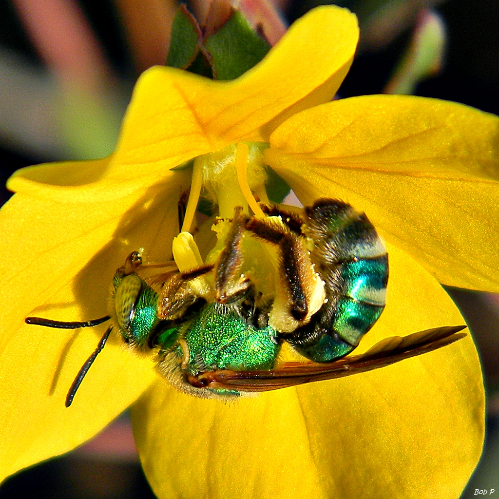 A metallic green halictid bee (probably Augochloropsis metallica) foraging for pollen on a Ludwigia blossom at Juno Dunes Natural Area. This is one of my favorite native bees and I call it the "metallic green sparkle-bee".